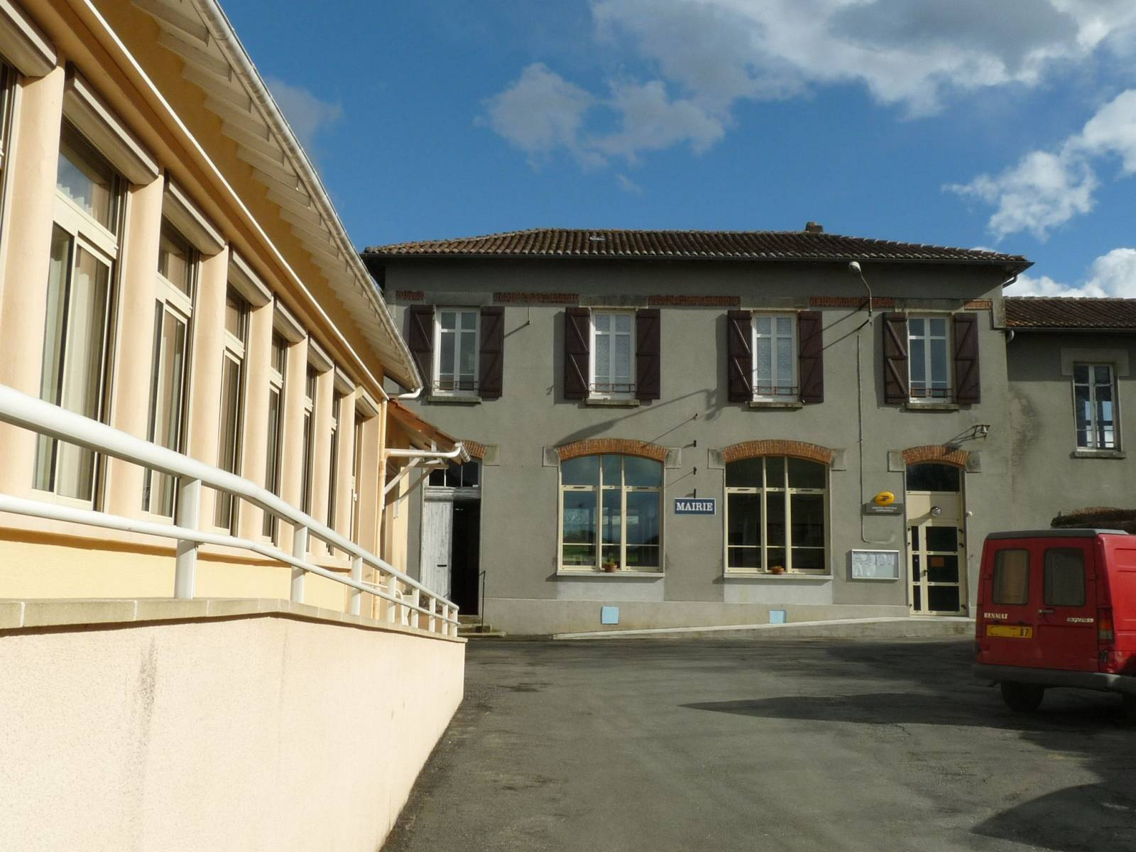 town hall of Chéronnac, Haute-Vienne, France